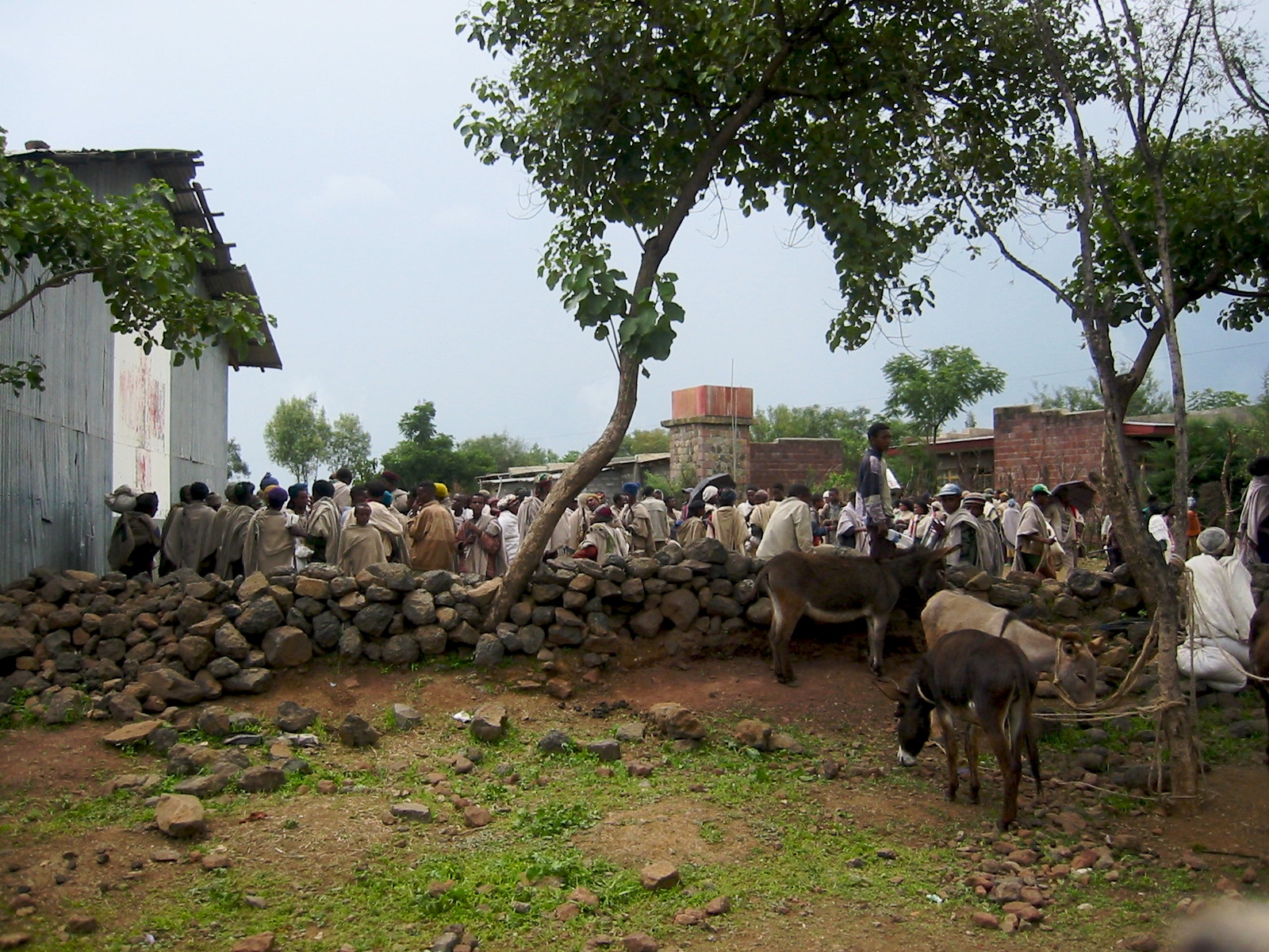 Food Aid Distribution Center in Rwanda, Dozens Wait Around for Rice